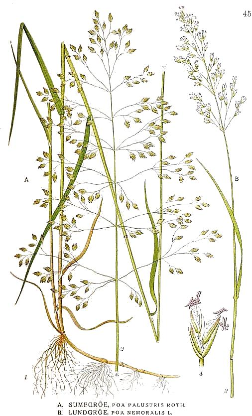 A. Poa palustris L. B. Poa nemoralis L. Original Description "Sumpgröe", Poa palustris Roth., "Lundgröe", Poa nemoralis L.